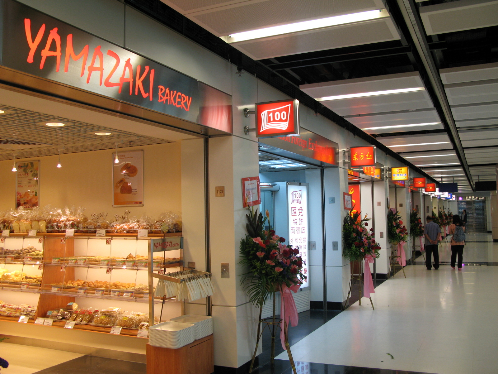 KCR Lok Ma Chau Station Level 1 shops